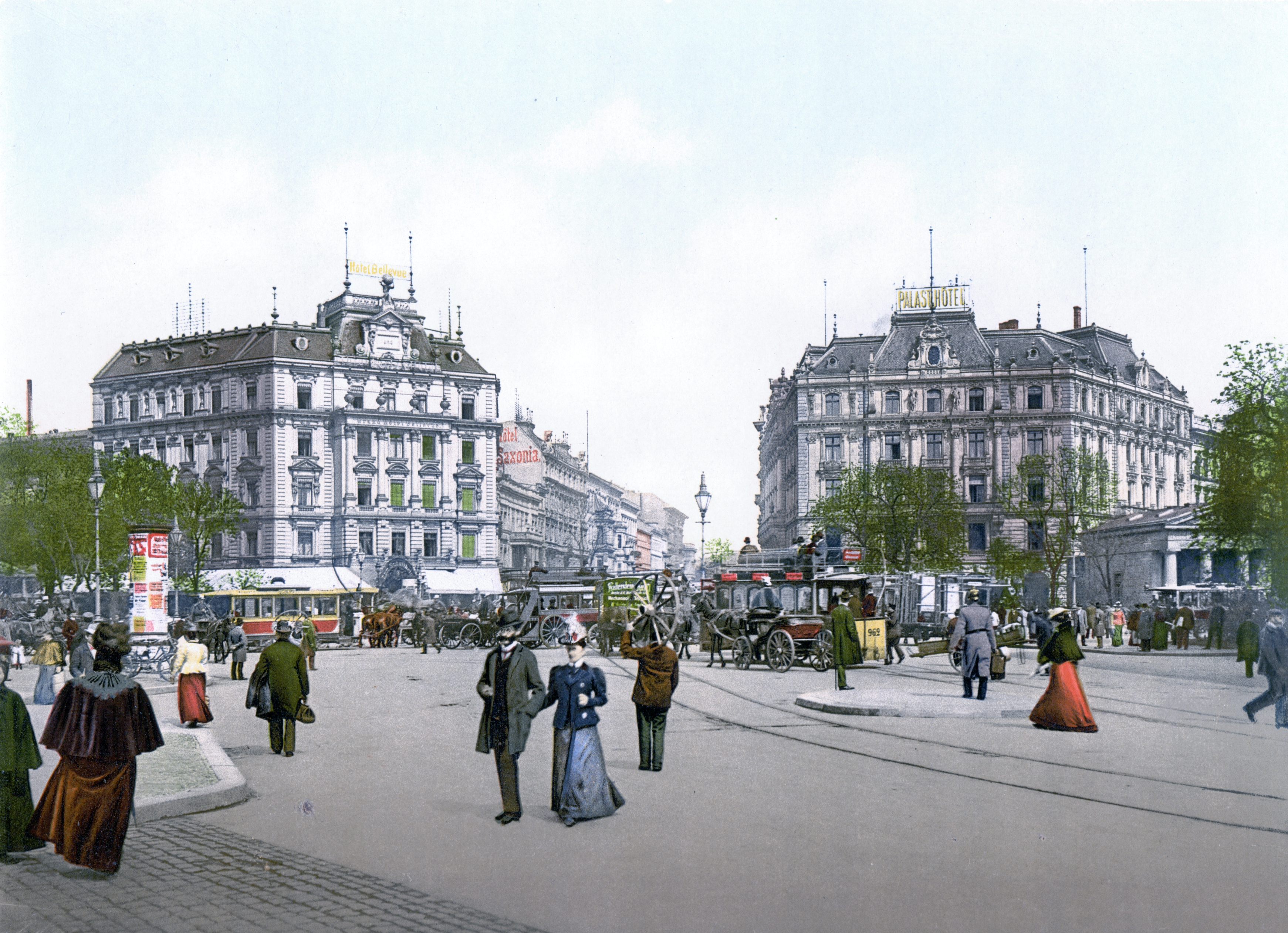 Berlin - Potsdam Square. Potsdamer Platz around 1900. The Grand Hotel Belle Vue and Palast Hotel stand either side of Königgrätzer Straße, which stretches away northwards towards the Brandenburg Gate. On the far right, one of Karl Schinkel's Doric temples (part of the former Potsdam Gate), can be seen at the entrance to Leipziger Platz.